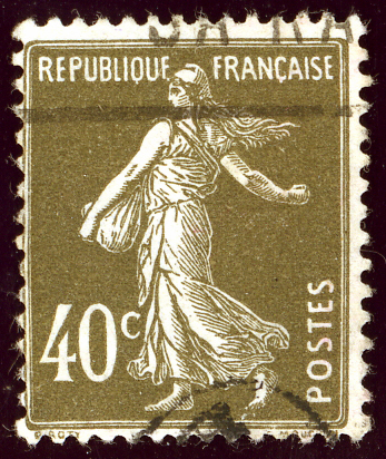 Stamp of France, 40 issue 1925